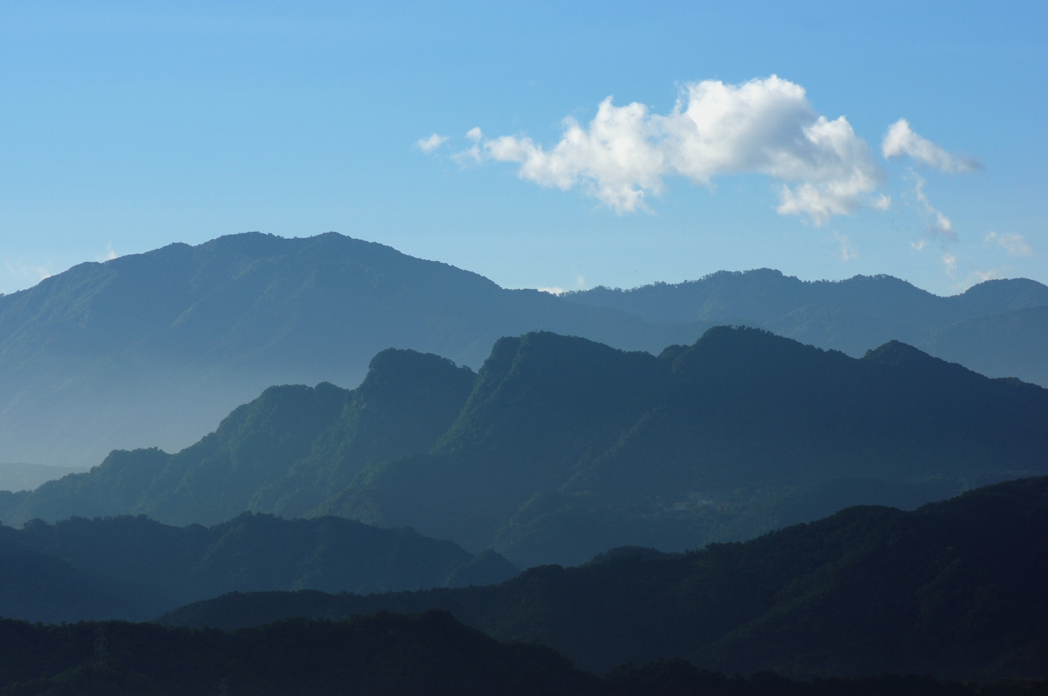 Mountain of fire-fingers, Hsinchu, Taiwan 中文（台灣）: 台灣新竹五指山